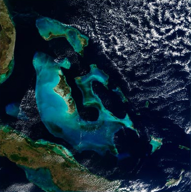 The raw satellite imagery shown in these images was obtain from NASA and/or the US Geological Survey. Post-processing and production by